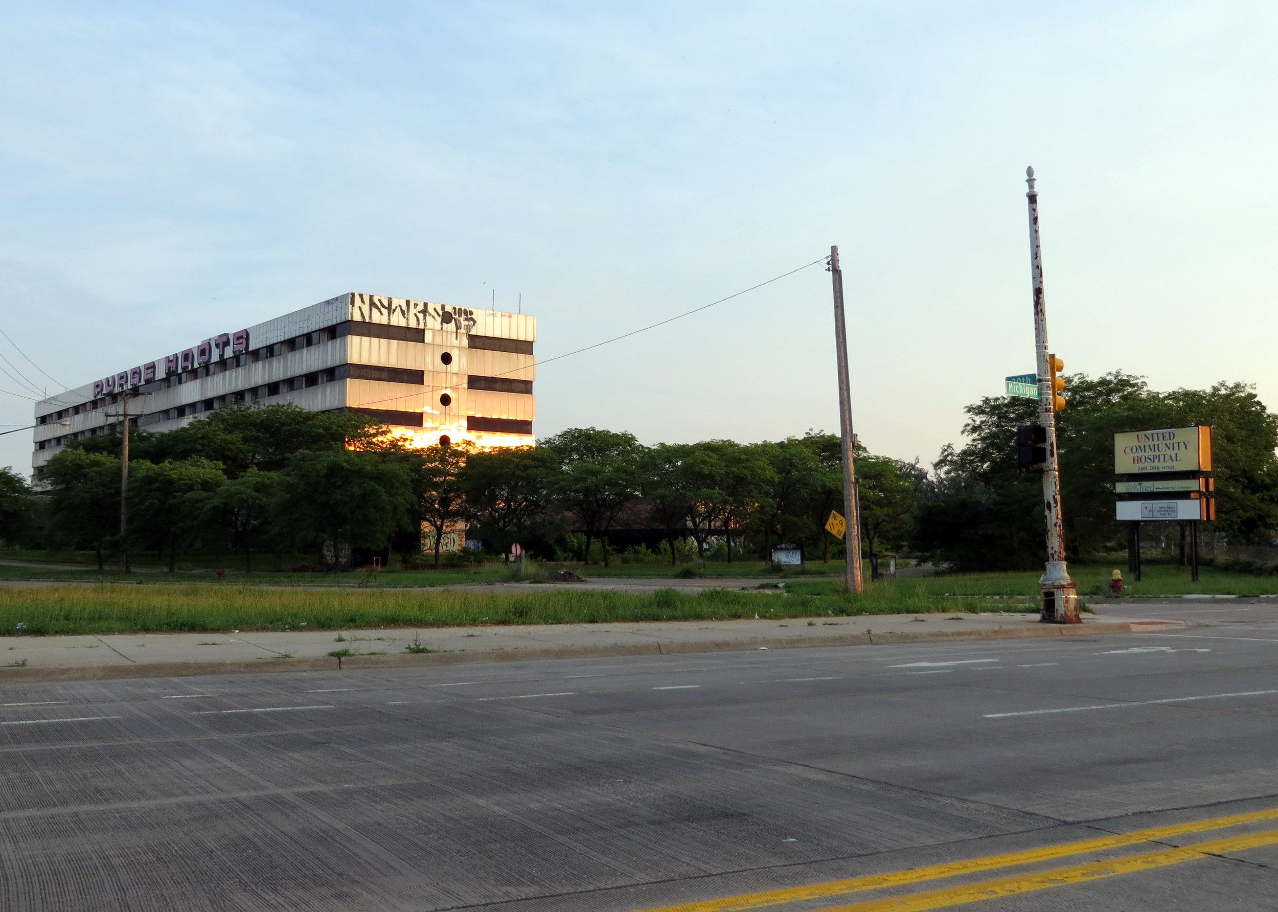 A picture of Southwest Detroit Hospital in June 2013, with short-lived United Community Hospital branding to the right.